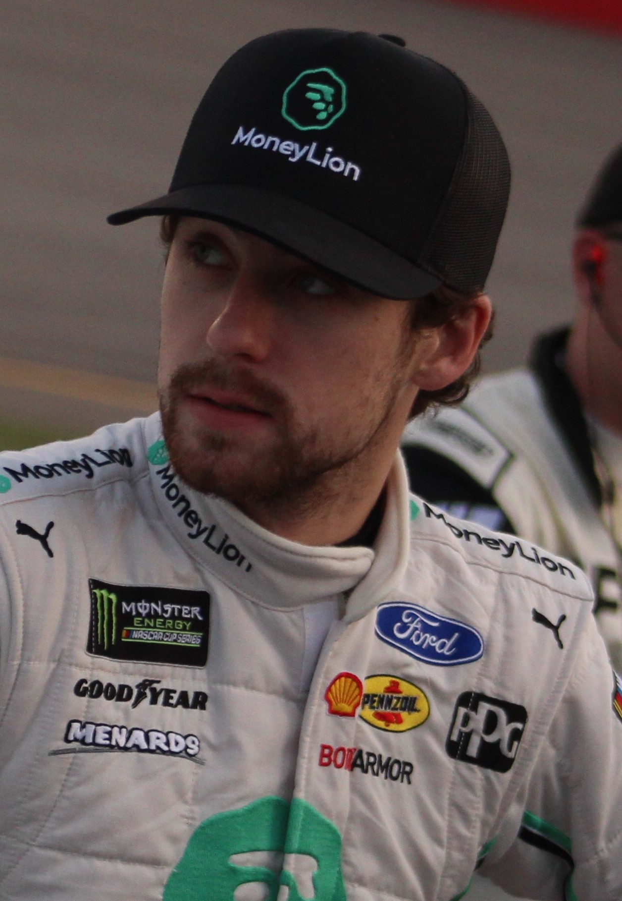 2019 Toyota Owners 400